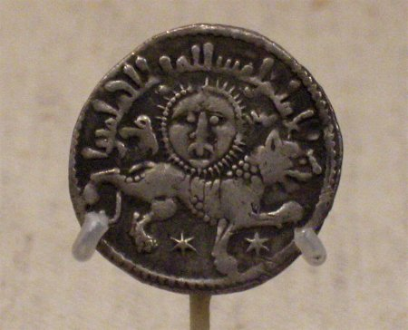 Anatolia, Konya Dirham, 640 A.H.; 1242-1243 Coin, Silver, 7/8 in. (2.22 cm) The Madina Collection of Islamic Art, gift of Camilla Chandler Frost (M.2002.1.413) Wikipedia Loves Art at the Los Angeles County Museum of Art This photo of item # M.2002.1.413 at the Los Angeles County Museum of Art was contributed under the team name "artifacts" as part of the Wikipedia Loves Art project in February 2009. Los Angeles County Museum of Art The original photograph on Flickr was taken by Beesnest McClain—please add a comment to the original Flickr page whenever a use has been made on Wikipedia or another project. Project galleries on Flickr: this institution, this team